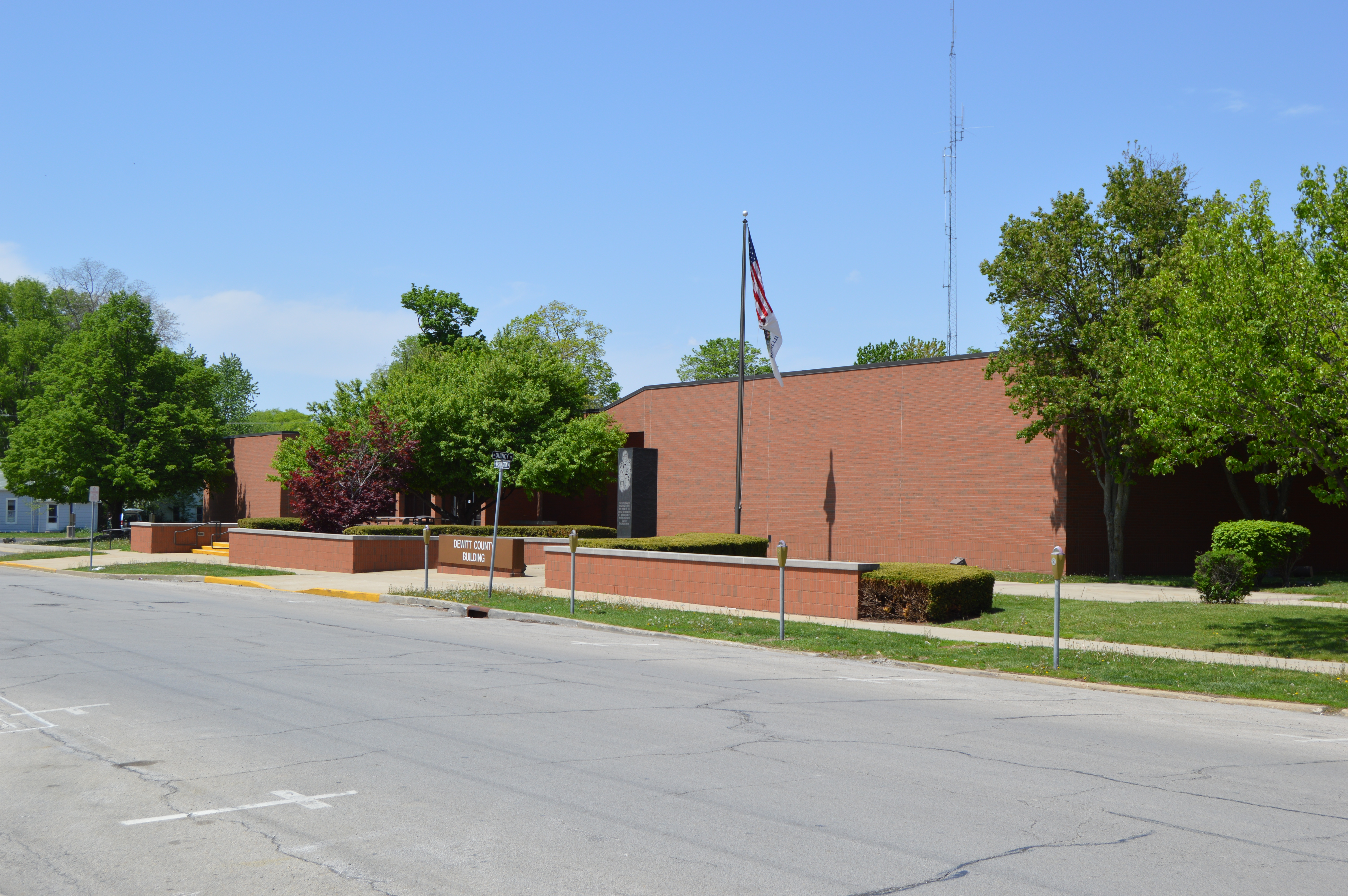 View from the southeast of the DeWitt County Courthouse, located at 201 W. Washington Street in Clinton, Illinois, United States. It was built in 1986.